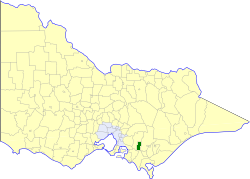 Location of the Rural City of Warragul within Victoria.